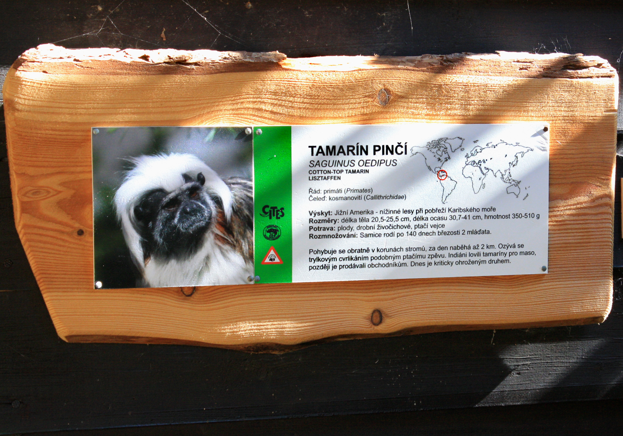 Cotton-top tamarins sign in Zoo Jihlava, Czech Republic